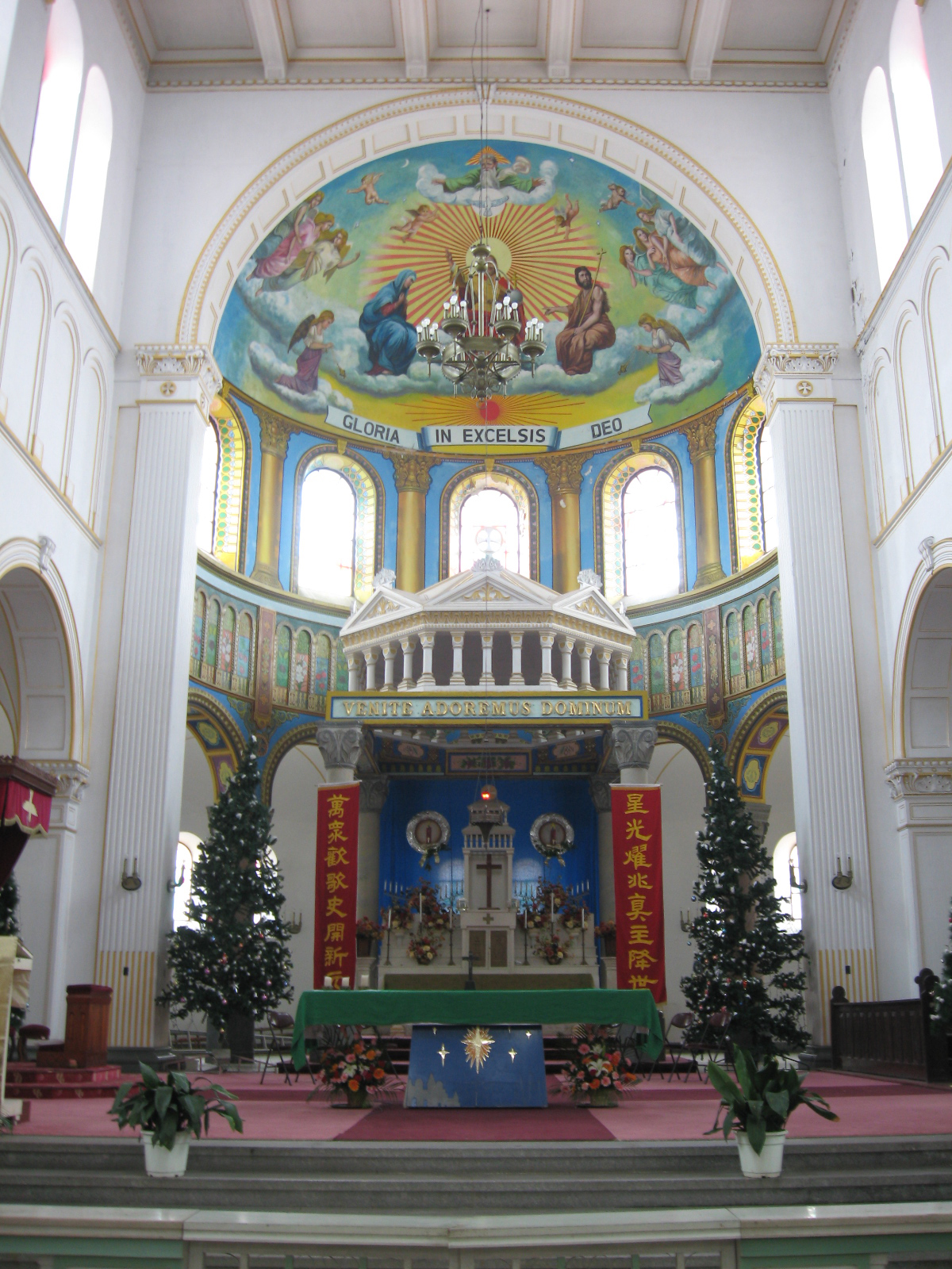 St. Michael's Cathedral, Diocese of Qingdao, Shandong Province, PRC. Interior shot. Pictured is the sanctuary, with an apse behind it. The cathedral is decorated for Christmas.